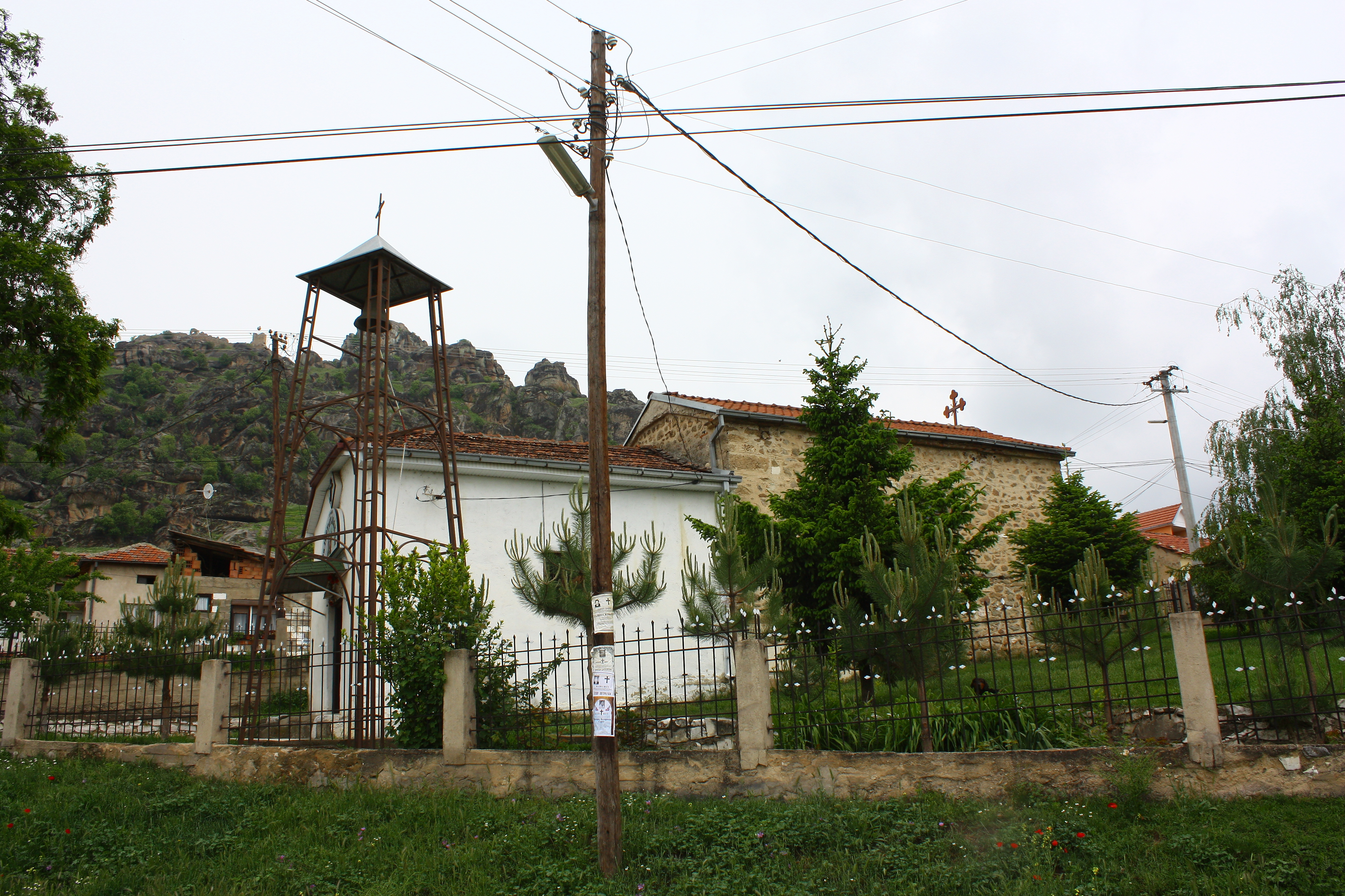 Ss. Peter and Paul Church in Varoš, near Prilep, Macedonia